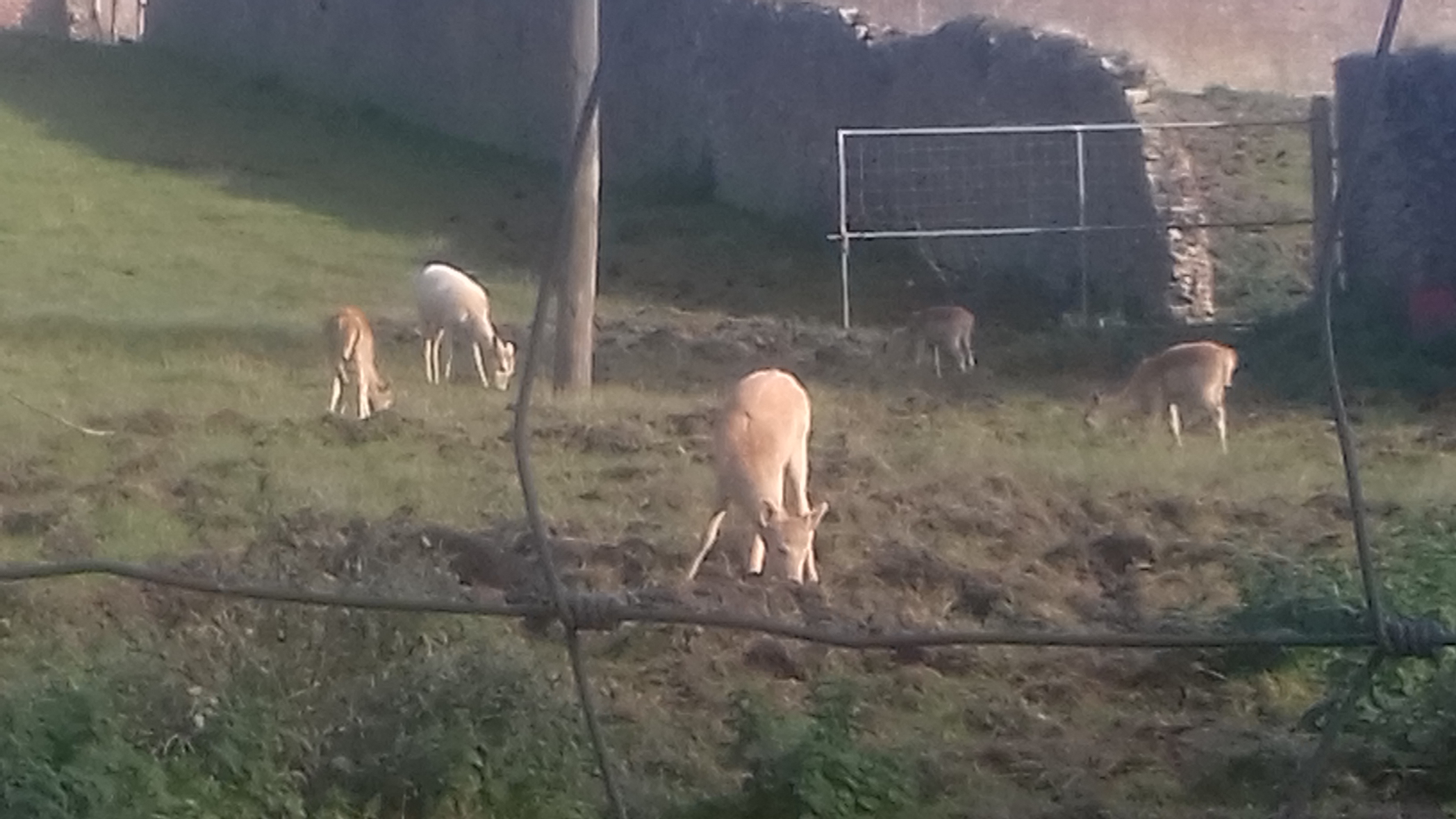 Fallow deer in the former walled garden of the Wandesford Estate. Now part of the Castlecomer Discovery Pary, Kilkenny. Oct 31st 2018.